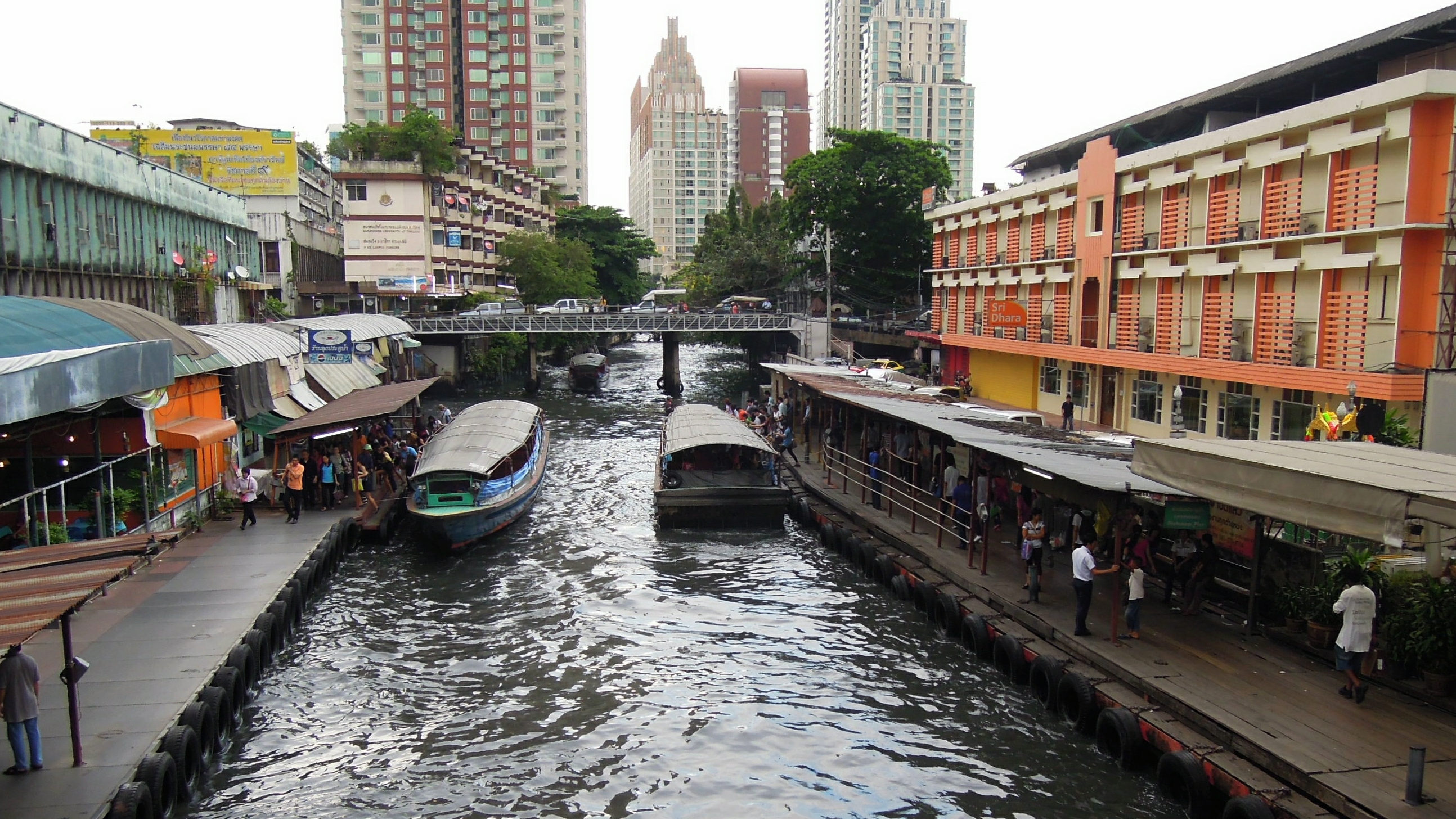 The Khlong Saen Saep Express Boat service operates on the Khlong Saen Saep in Bangkok, providing fast, inexpensive transportation through the city's traffic-congested commercial districts. The service has a checkered reputation, due to the polluted water in the khlong and the haphazard nature in which the service is operated. The 18-kilometre route is served by 100 boats of 40-50 seats, and operates 5:30am to 8:30pm daily. Prices are 8 to 20 baht, depending on distance travelled. The service carries about 60,000 passengers per day. It is run by a company called Family Transport. Source: - - - - - - - - Pratunam is a shopping district in Bangkok. It is a major market area with thousands of fashion stores that sell wholesale with cheap prices guaranteed, especially if you buy in bulk. Pratunam is used in a broad sense here, and it also includes the areas of Victory Monument, Ratchathewi and Makkasan. The southern boundary of Pratunam is marked by the Saen Saep Canal. This canal was dug during the reign of King Rama III in the mid-nineteenth century to connect the Chao Phraya River with the Bang Pakong River to the east. When Saen Saep was connected with Maha Nak Canal and Krung Kasem Canal, a gate was required to control the water level between them. Pratunam means "water gate". It was not developed until the 1960s when rice fields dominated the landscape. Around that time, a fresh produce market was set up near the Indra Hotel at Ratchaprarop Road. Since then more markets have set up here, and the whole area has become known as a local marketplace. Source